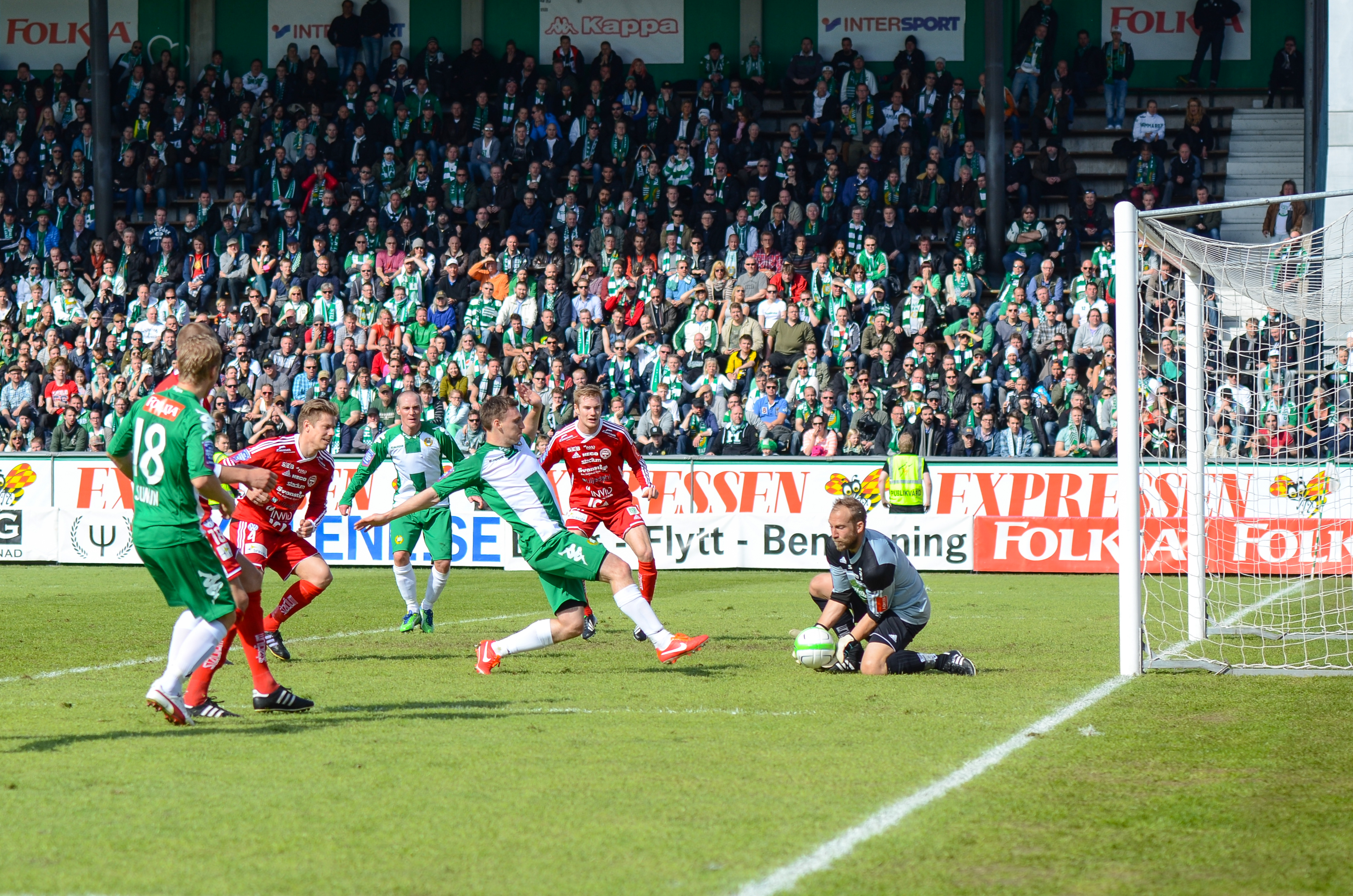 Hammarby IF vs IFK Värnamo, April 14, 2013